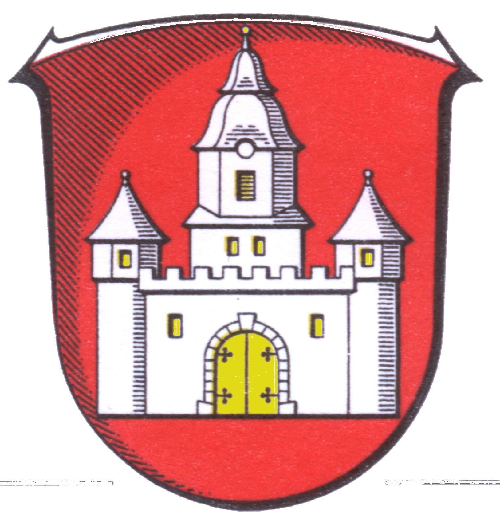 Coat of Arms of Herleshausen